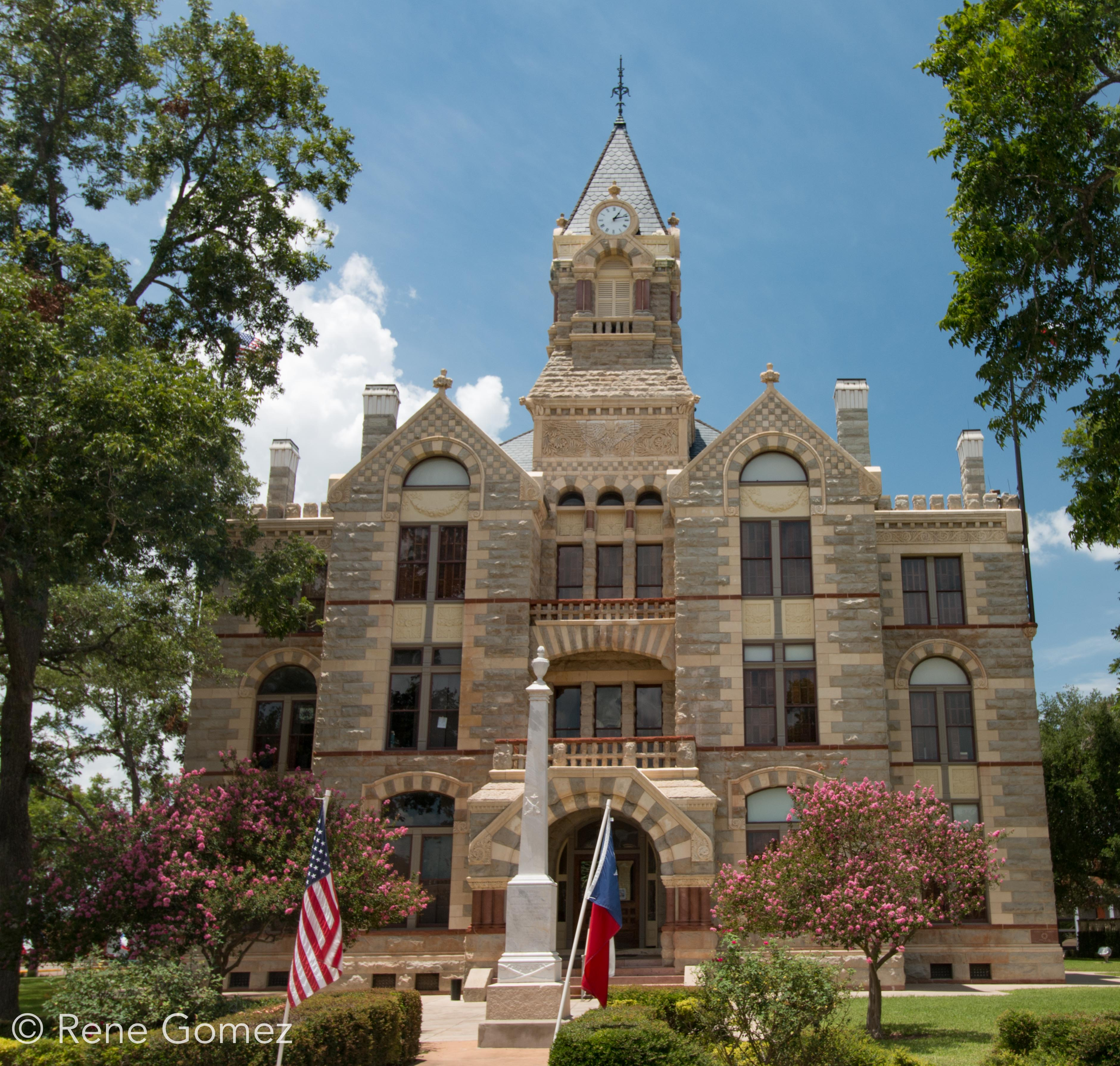 Fayette County Courthouse in LaGrange, Texas